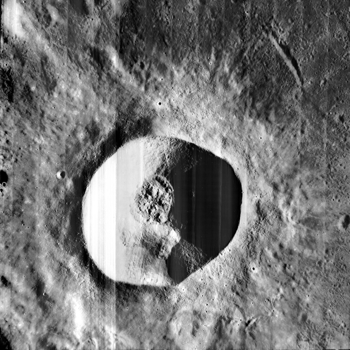 Dionysius, on the moon, with north at top.